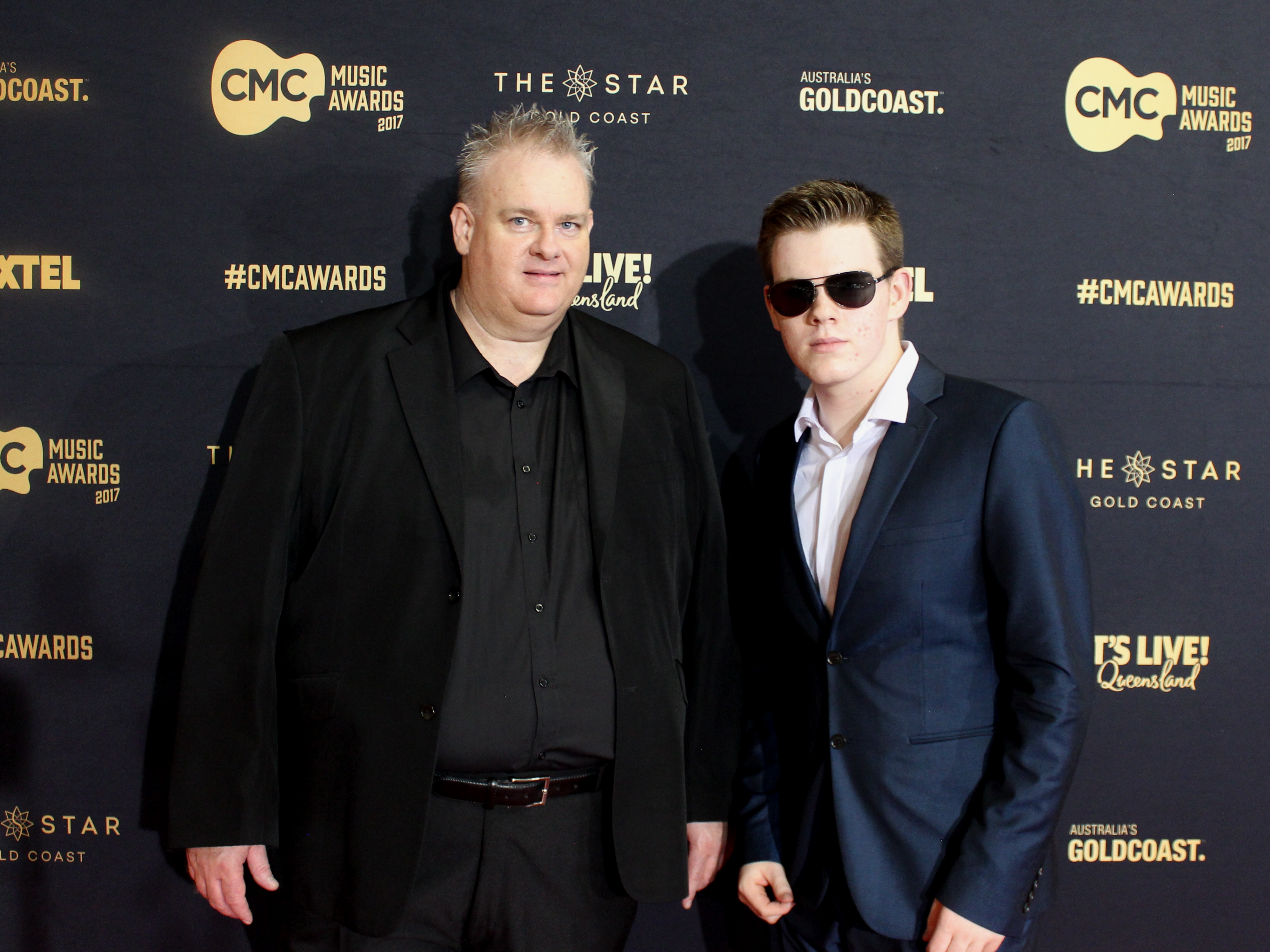 The hosts of Planet Country radio show, Big Stu and MJ, at the 2017 CMC Awards on the Gold Coast in Australia.